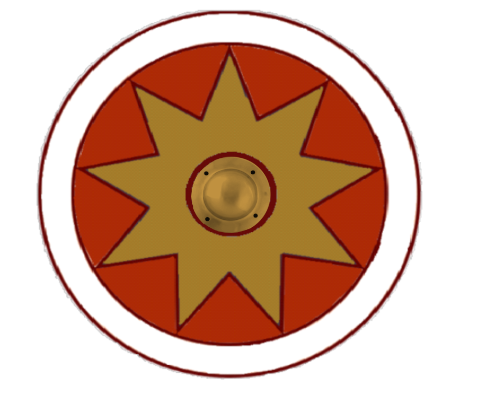 Shield pattern of Lanciarii Lauriacenses in the early 5th century. Quelle: Notitia Dignitatum Occ V.